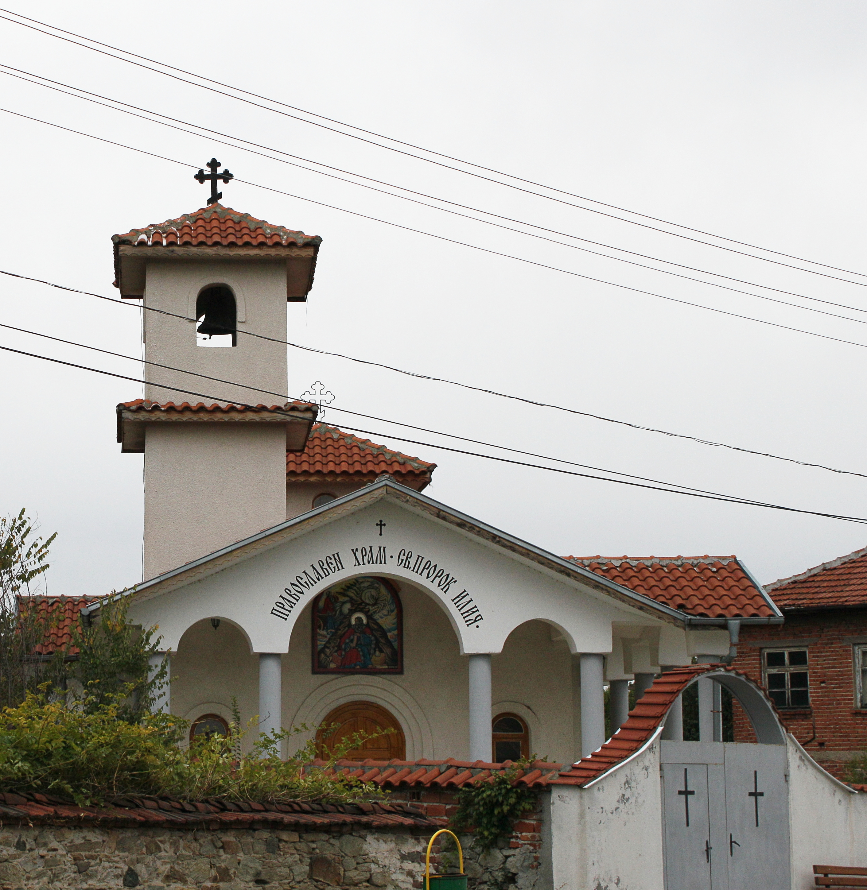 village Kasnakovo, district Haskovo, Bulgaria